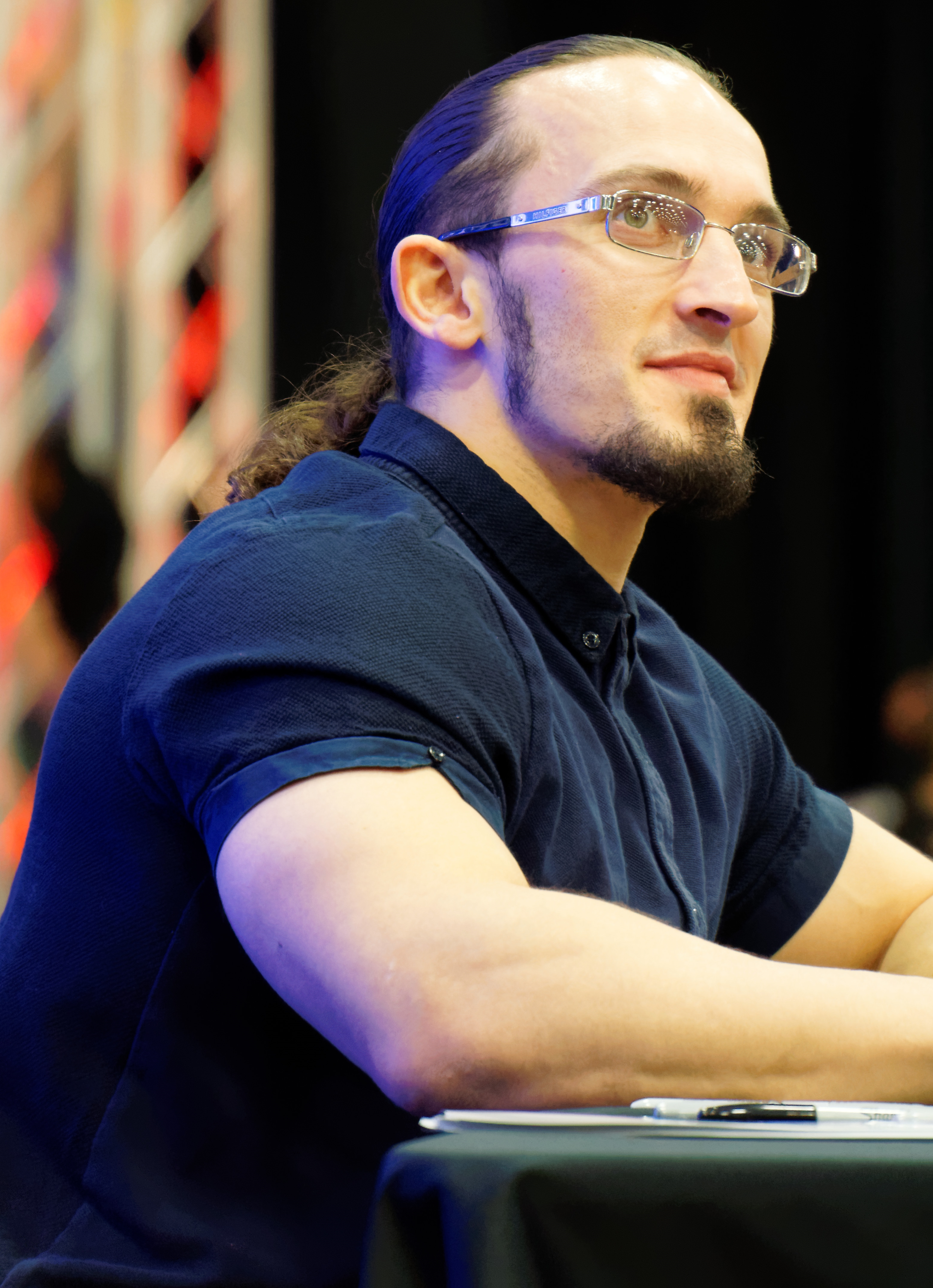 Neville at WrestleMania 32 Axxess in April 2016.